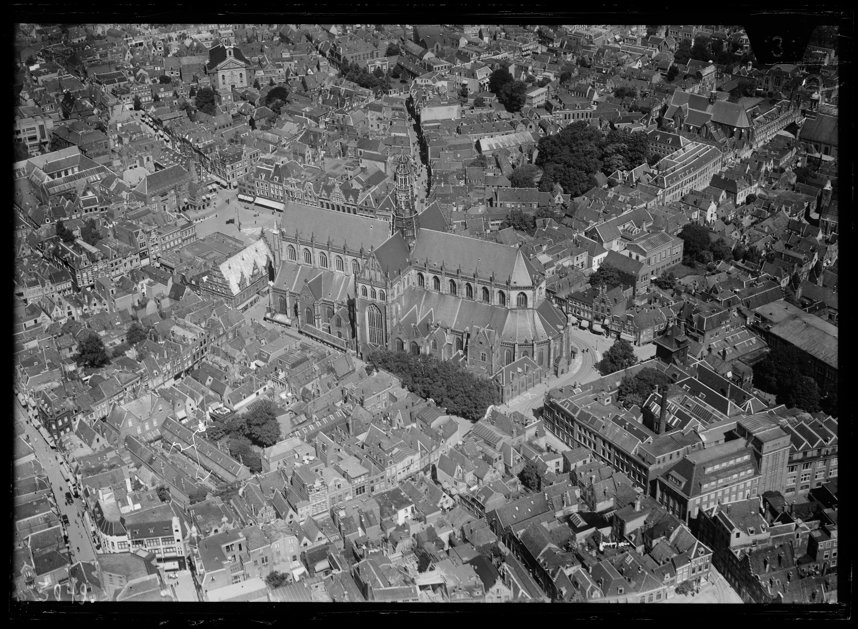 Aerial photograph of Haarlem, The Netherlands